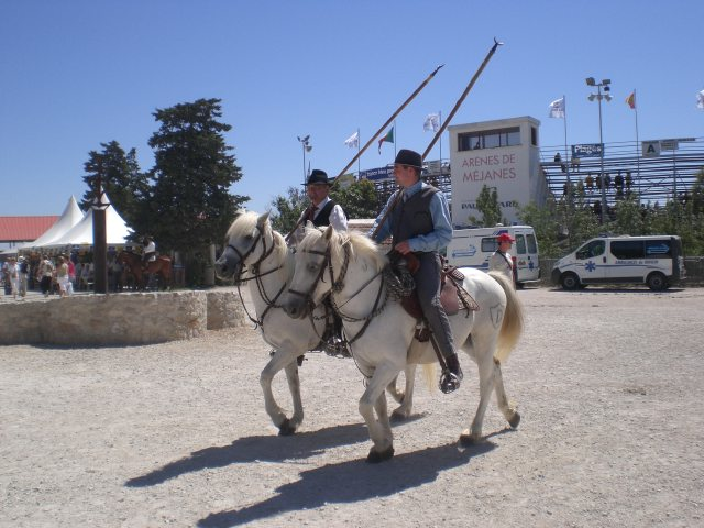 Gardians (Cowboy) in traditional dress at Méjanes, in Arles, France.